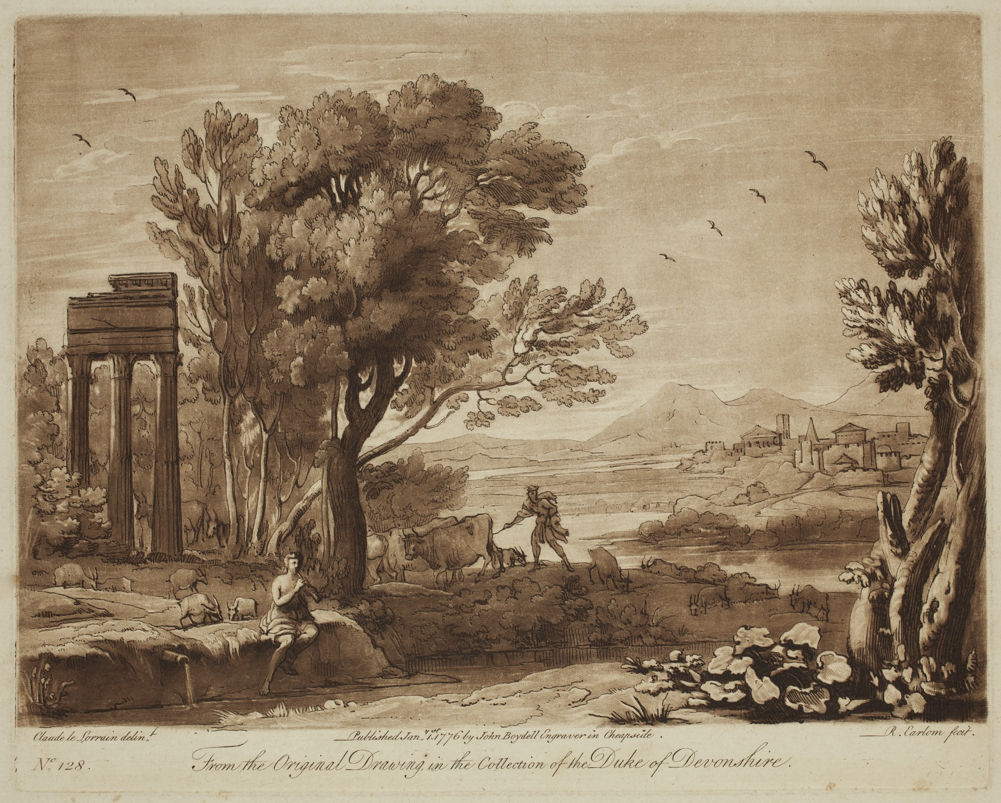 Richard Earlom, after Claude Gellée "Mercury and Battus" ("Landscape with Apollo Guarding the Herds of Admetus and Mercury Stealing Them") Etching and mezzotint printed in brown on laid paper, ca. 1775 Claudio de Lorena's original painting (from 1654) was destroyed in a fire at Holkham Hall (UK) in 1870. Details: - Artist: Richard Earlom, English, 1743 - 1822 - Artist: after Claude Gellée, French, 1600-1682 - Publisher: John Boydell, English, 1719-1804 - Title: Mercury and Battus - Date: ca. 1775 - Medium: Etching and mezzotint printed in brown on laid paper - Dimensions: plate: 8 1/8 x 10 1/8 in. (20.7 x 25.7 cm) sheet: 11 1/8 x 14 in. (28.2 x 35.5 cm) - Credit Line: Gift of Mrs. James E. Scripps - Accession Number: 09.1S454